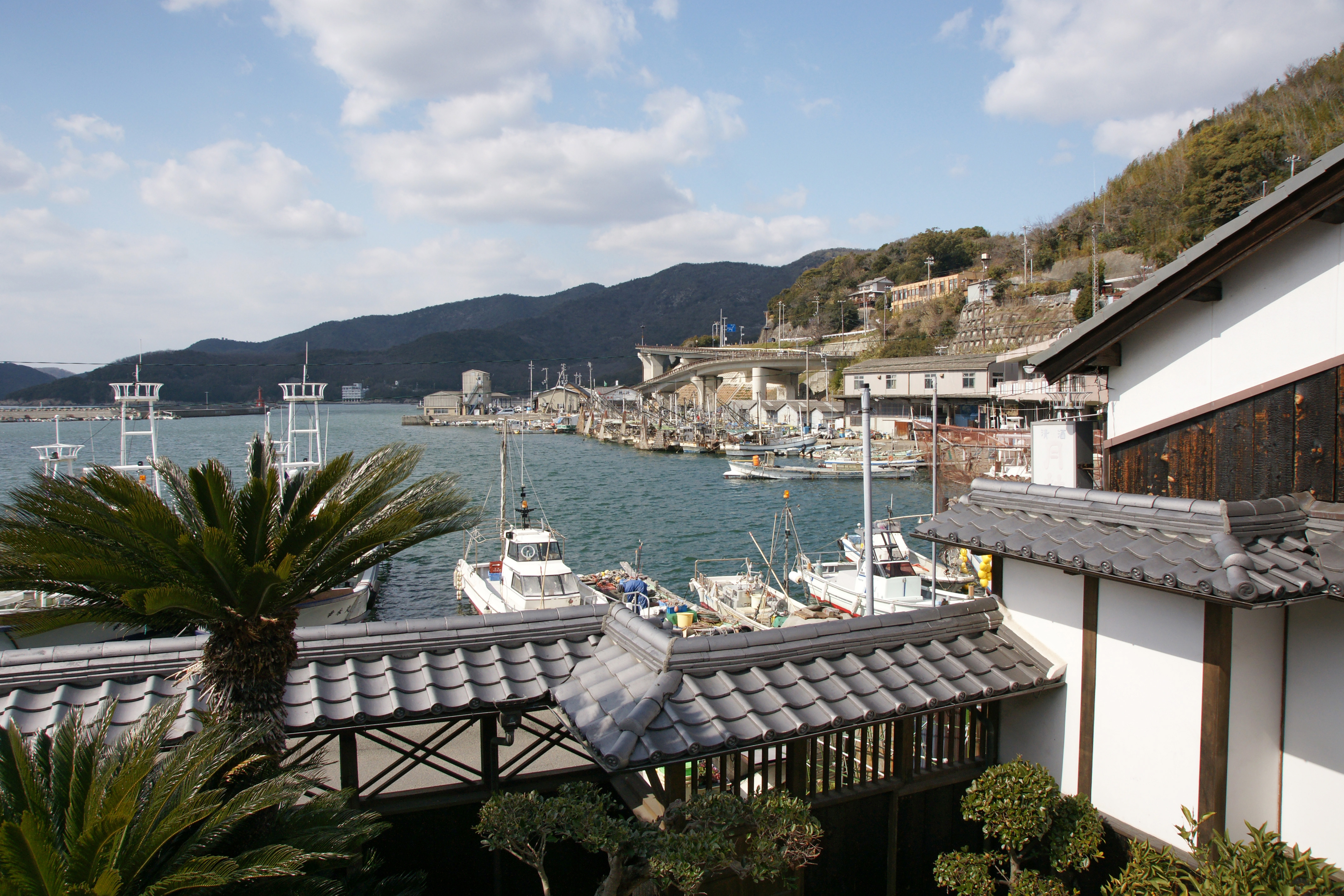 at Tatsuno Municipal Murotsu Museum of Sea Port in Murotsu, Tatsuno, Hyogo prefecture, Japan